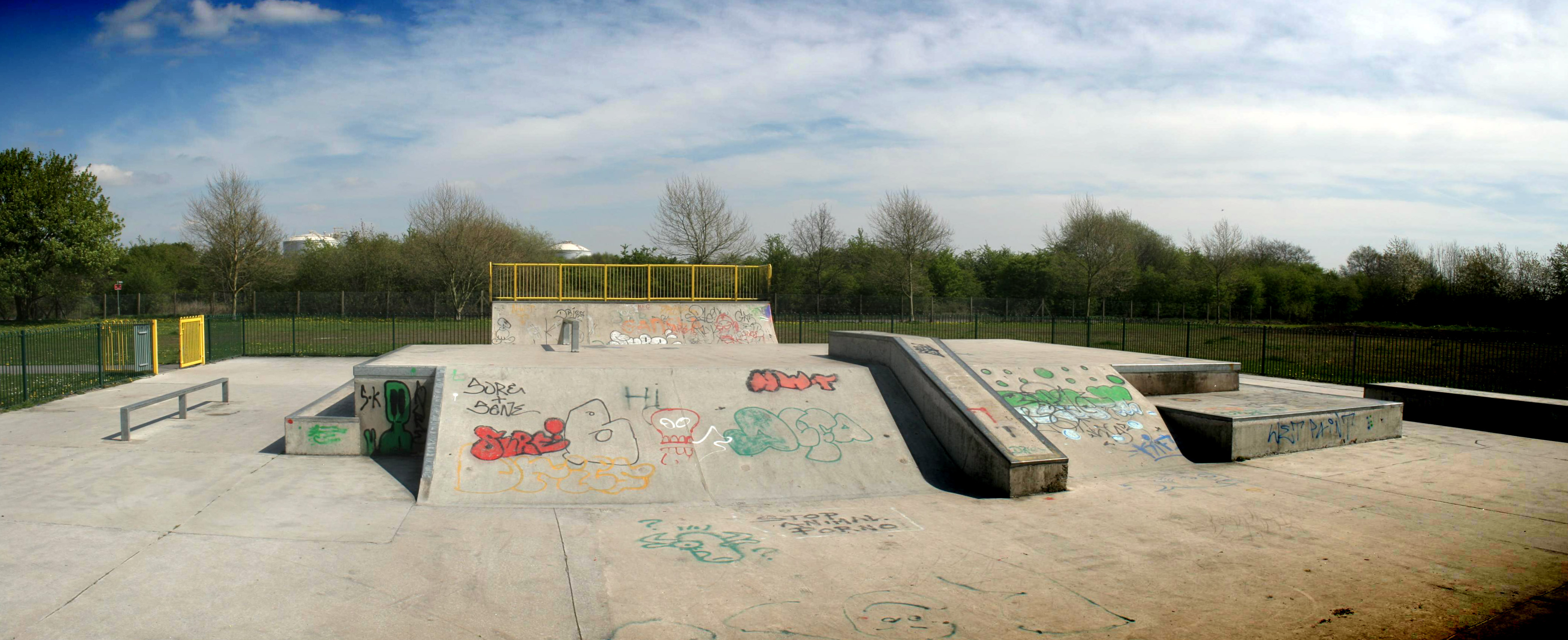 Partington Skate Park, just to the south of Partington along Moss Lane.